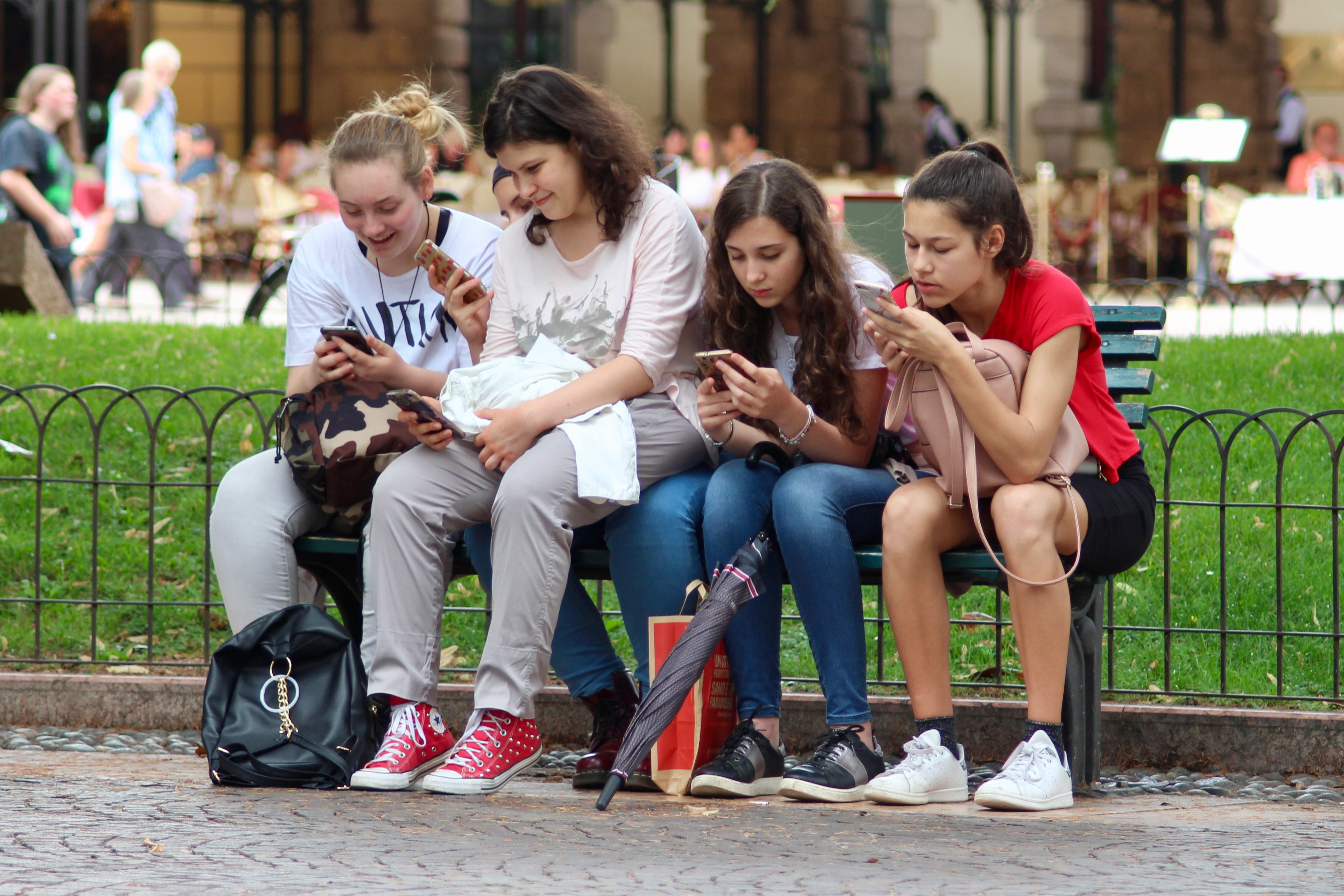 girls distracted by their phones